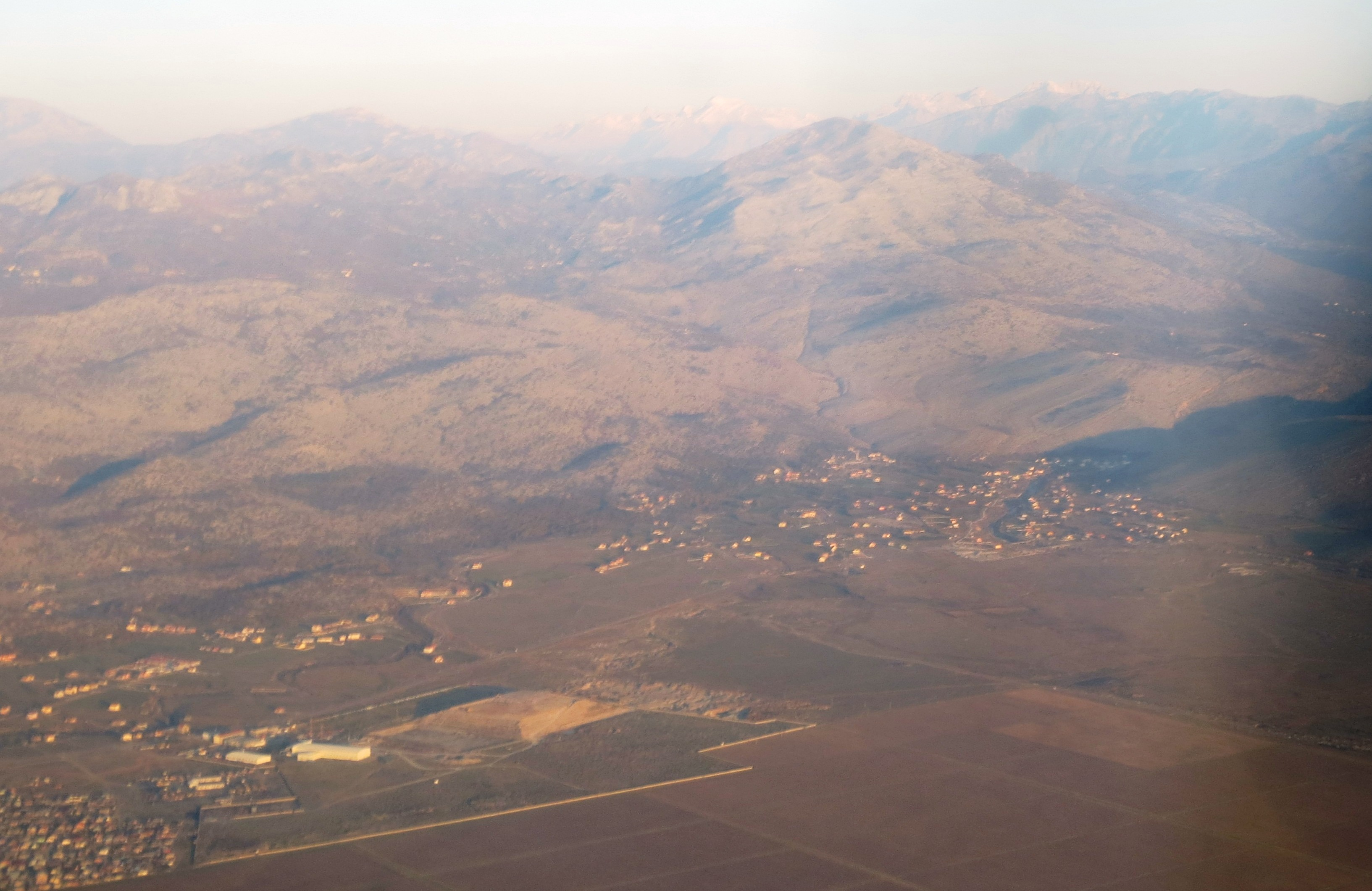 The village of Dinosa, just immediately northeast of Podgorica city, Montenegro